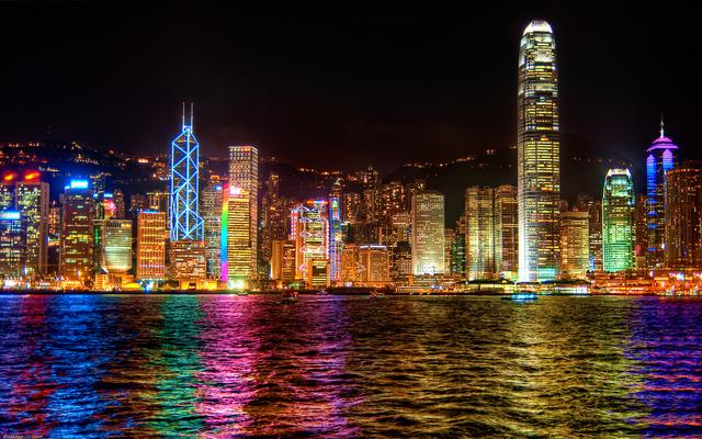 A city illuminated by colorful artificial lighting at night.